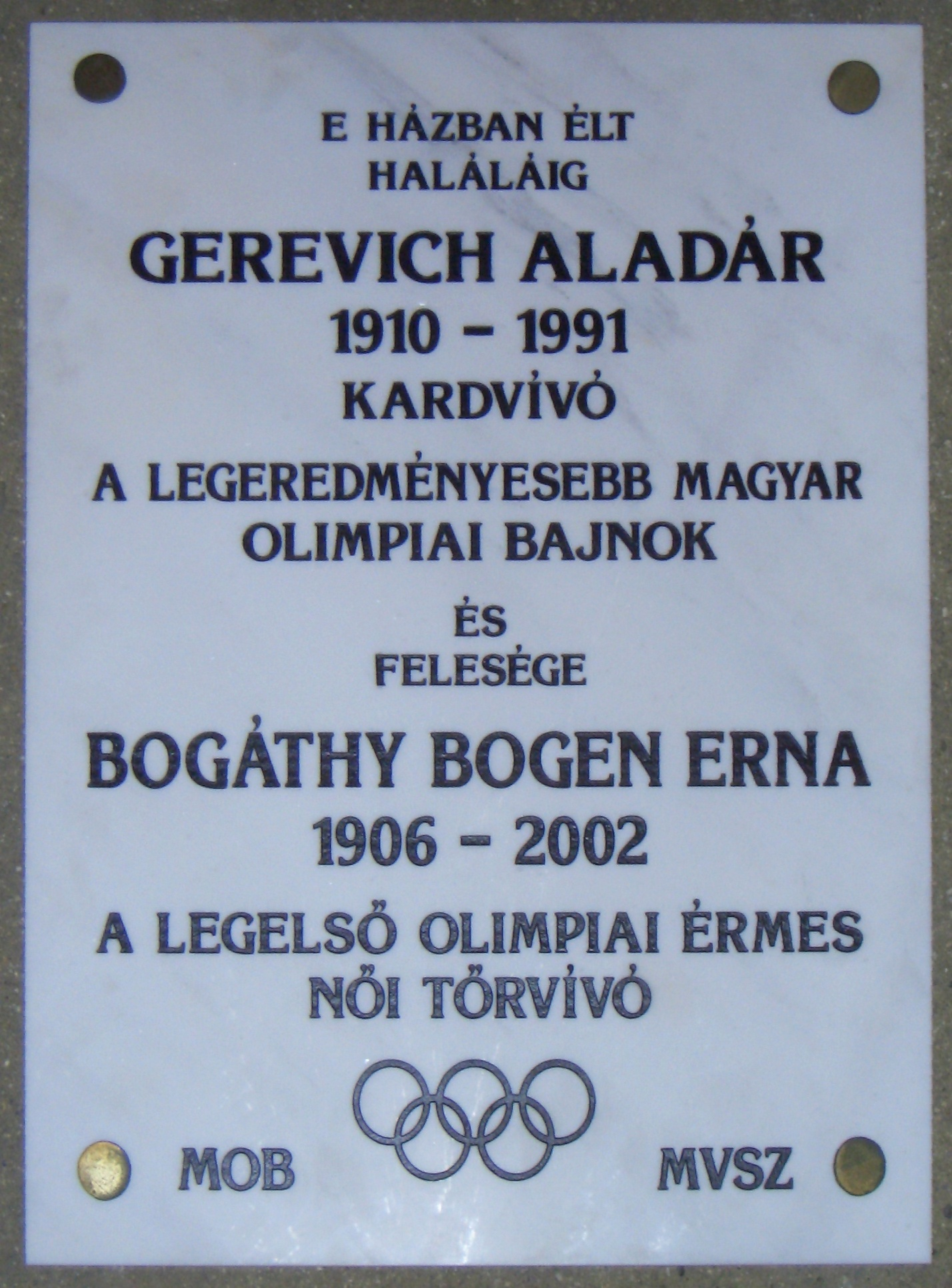 Commemorative plaque of Aladár Gerevich and Erna Bogáthy-Bogen in Budapest District I, Attila Street No 39